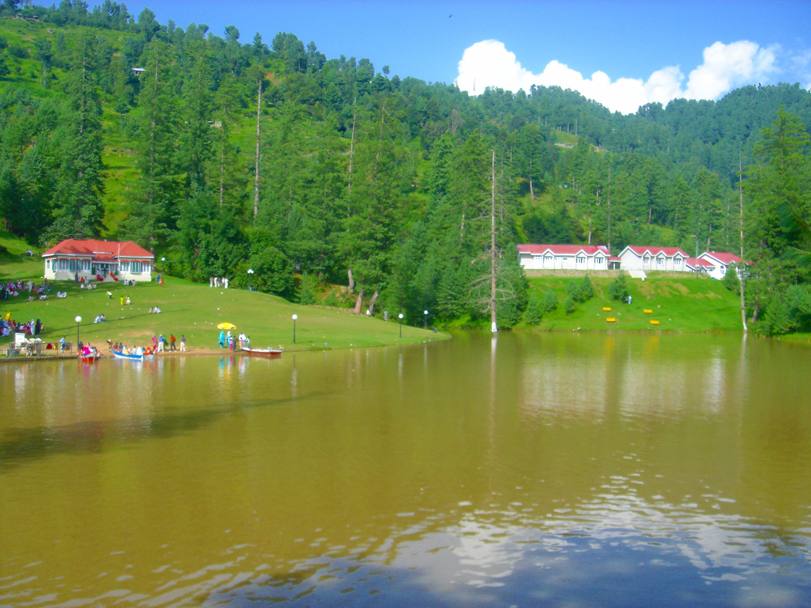 Beautiful Banjosa Lake located 25km from the city Rawalakot